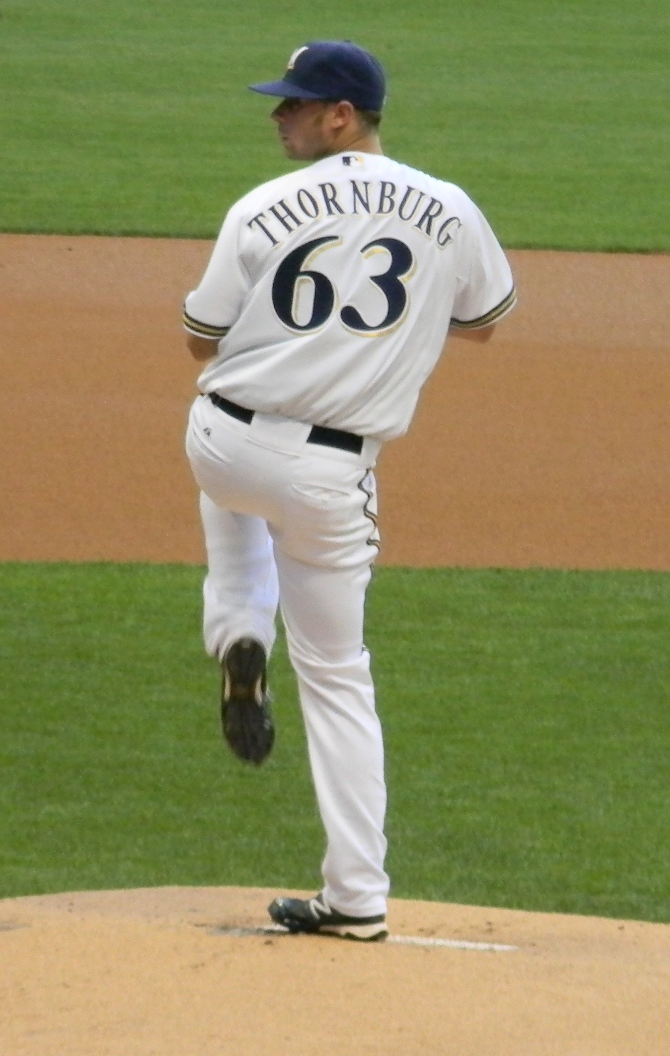 Tyler Thornburg makes his first Major League start on June 19, 2012 against the Toronto Blue Jays at Miller Park in Milwaukee, WI.